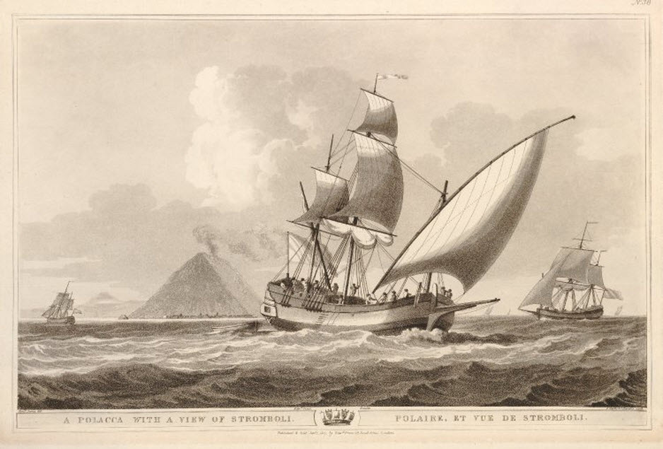 Dominick Serres "A Polacca With a View Stromboli". Illustration to the 'Liber Nauticus, and Instructor in the Art of Marine Drawing' (plate 38); seascape with three boats, a volcano in background at left, other vessels on horizon at right. 1807 Etching and aquatint